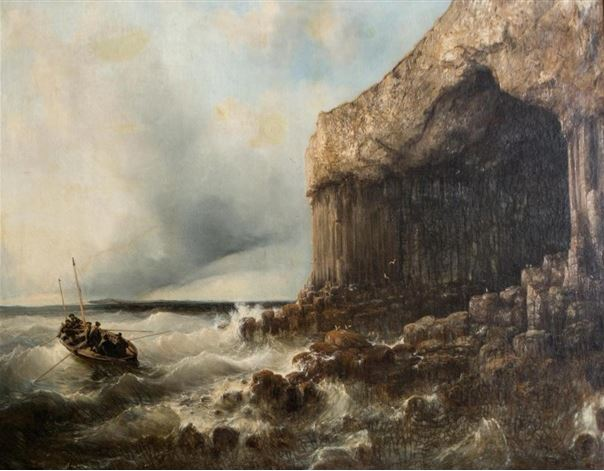 Italian Coast with Grotto and Tour Boat